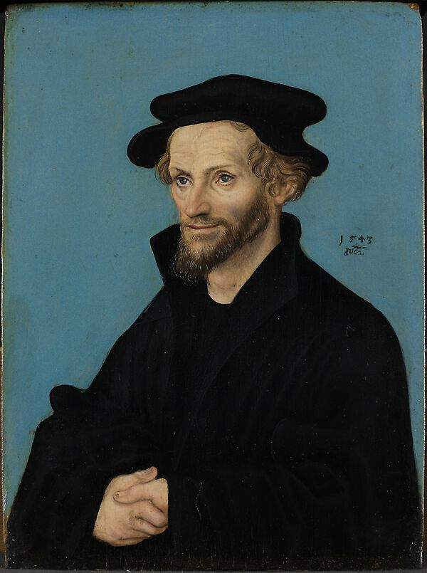 part of a double portrait with Martin Luther left site